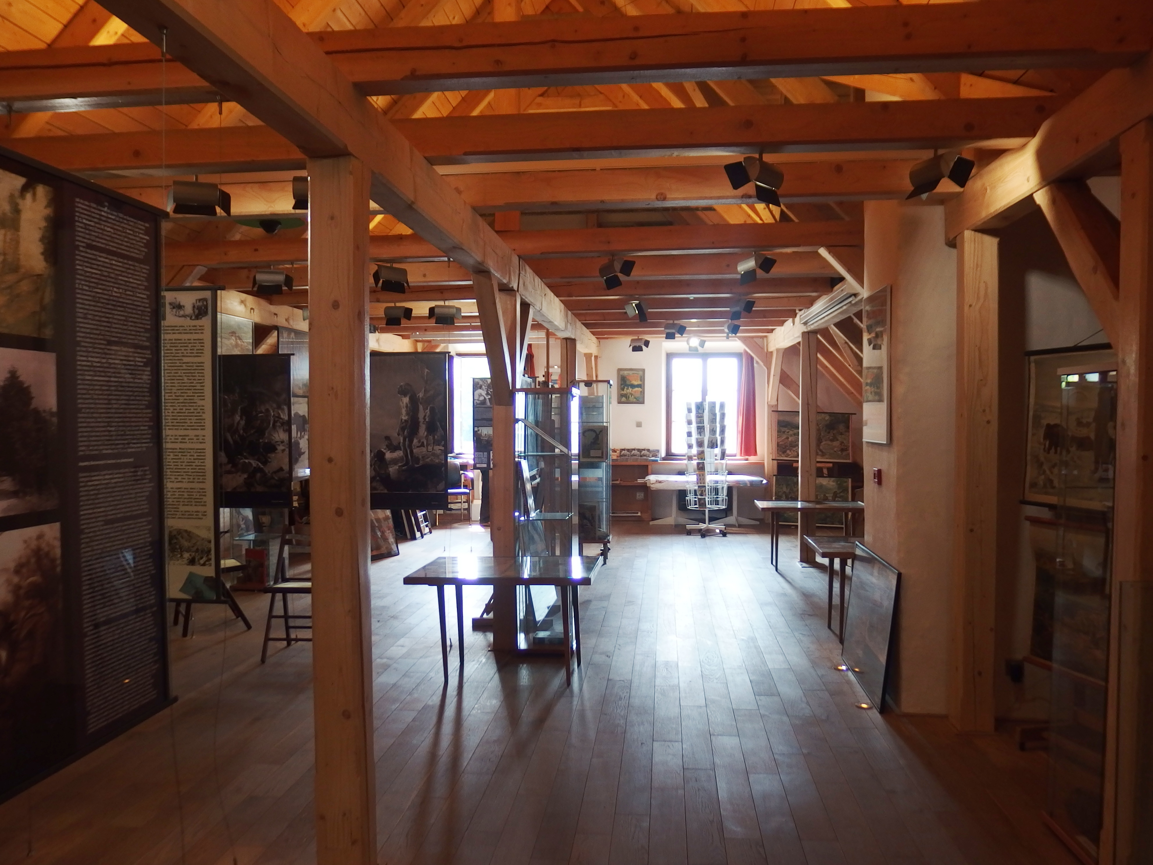 Štramberk, Nový Jičín District, Czech Republic. Museum of Zdeněk Burian at the town square.